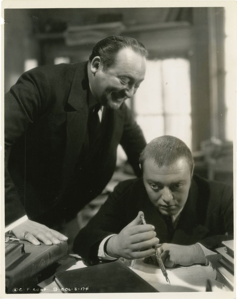 Crime and Punishment (1935). Josef von Sternberg, director. Left to right: Edward Arnold, Peter Lorre. Columbia Pictures